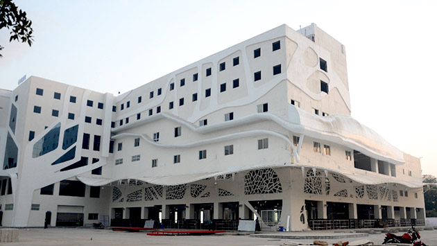 Exterior of Swanky Vadodara bus terminal inaugurated in 2014